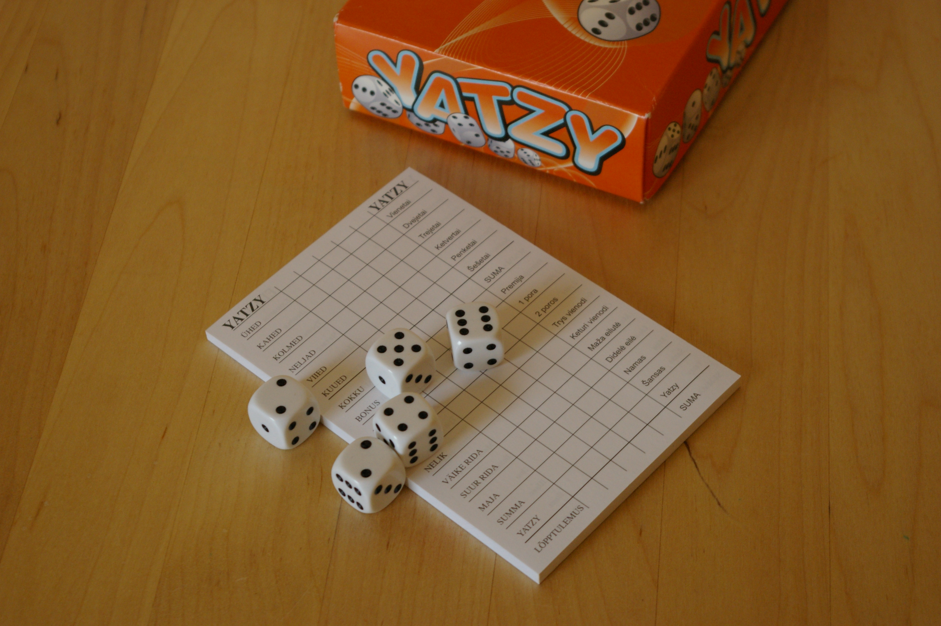 Dice and score table for game Yathzee.